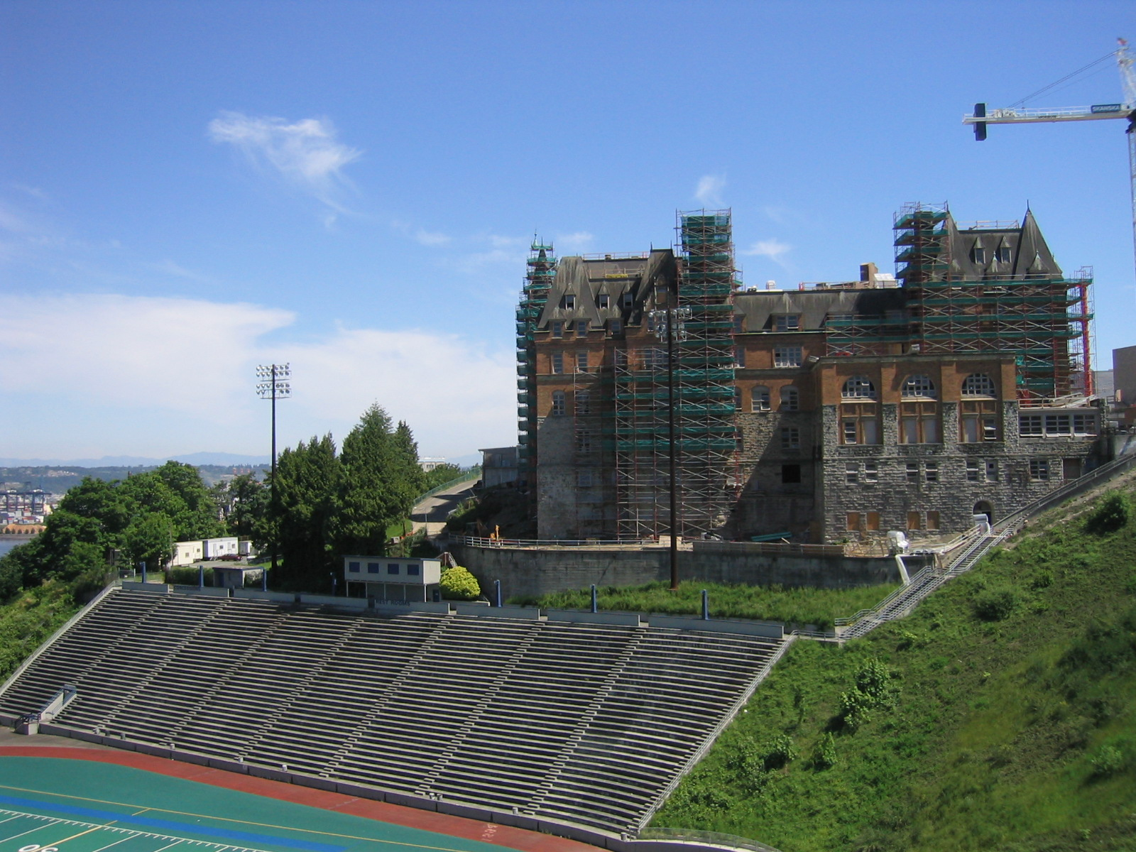 Stadium High School, Tacoma, Washington during repairs. took the picture myself